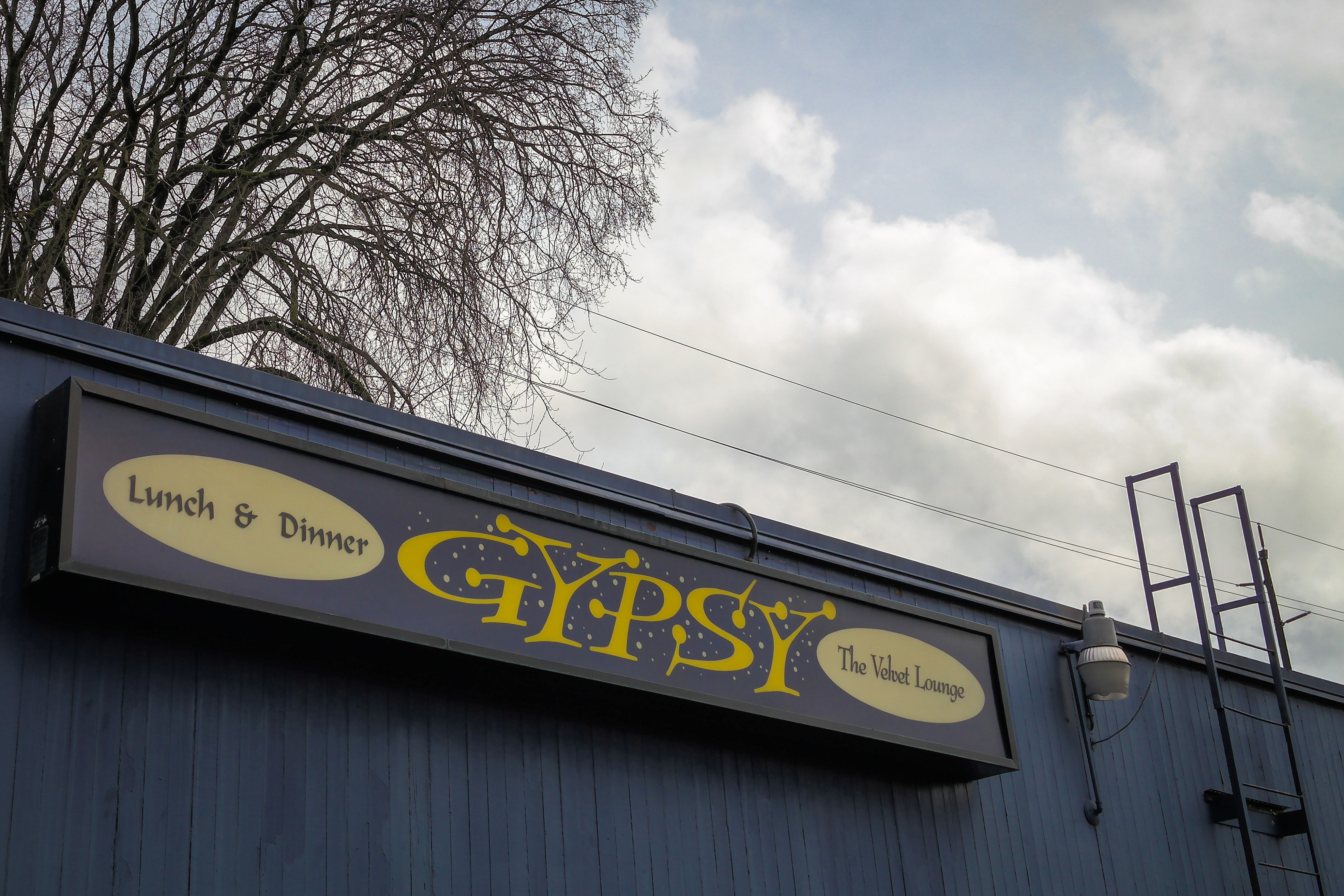 A view of the recently defunct Gypsy Restaurant and Velvet Lounge in Portland, Oregon